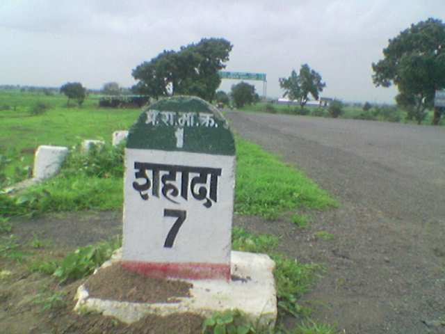 Distance signboard on Maharashtra State Highway Number 1 showing Shahada town on MSH-1